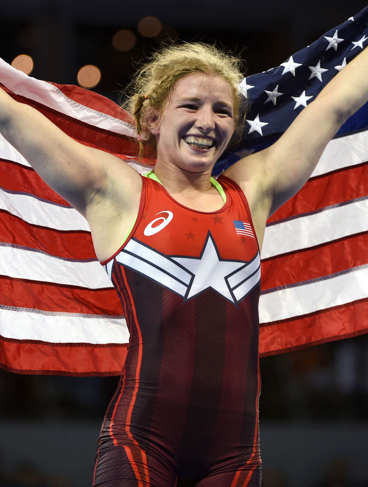 WhitneyConderFlag3815